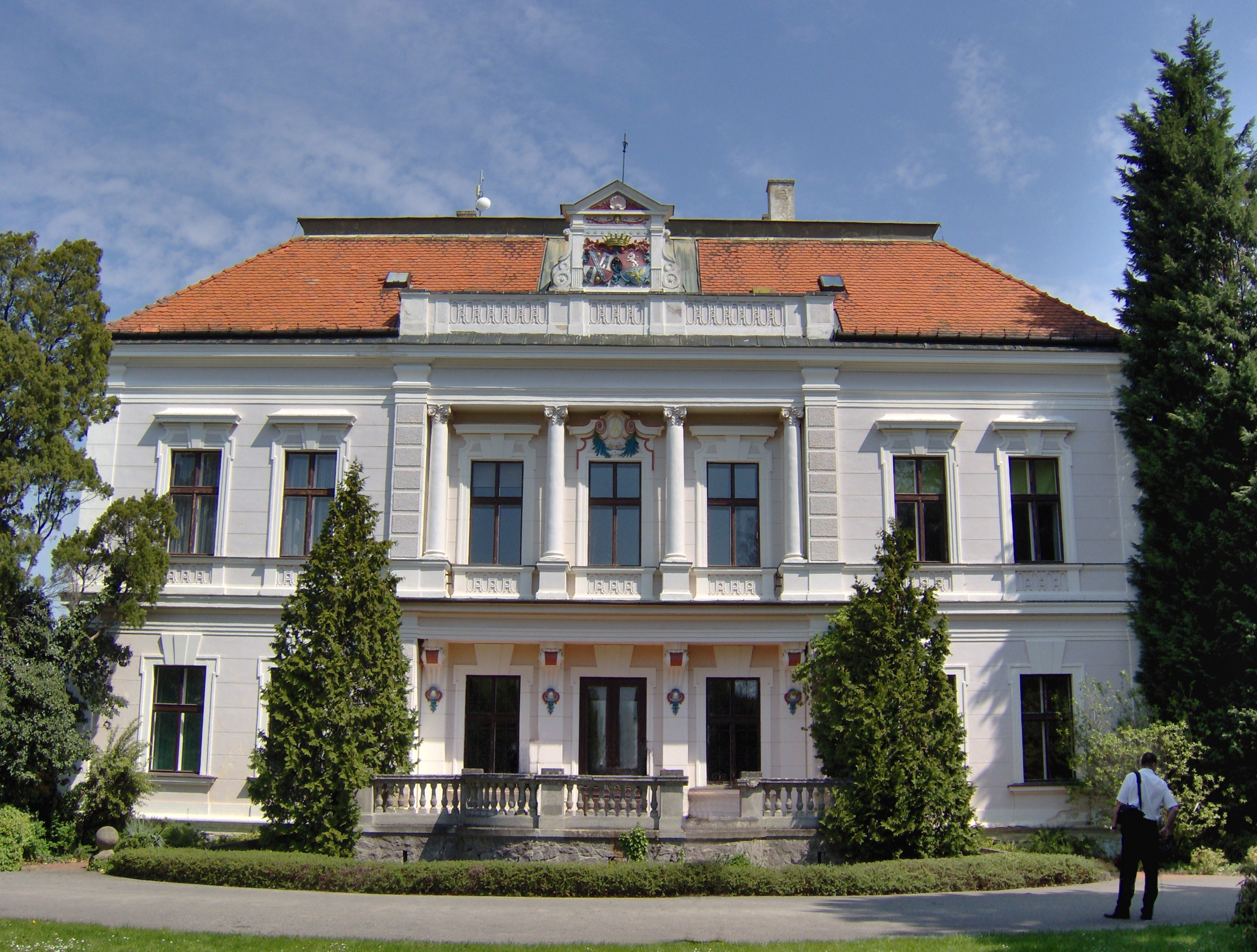 Arborétum Mlyňany, Ambrózy´s manor, 1894